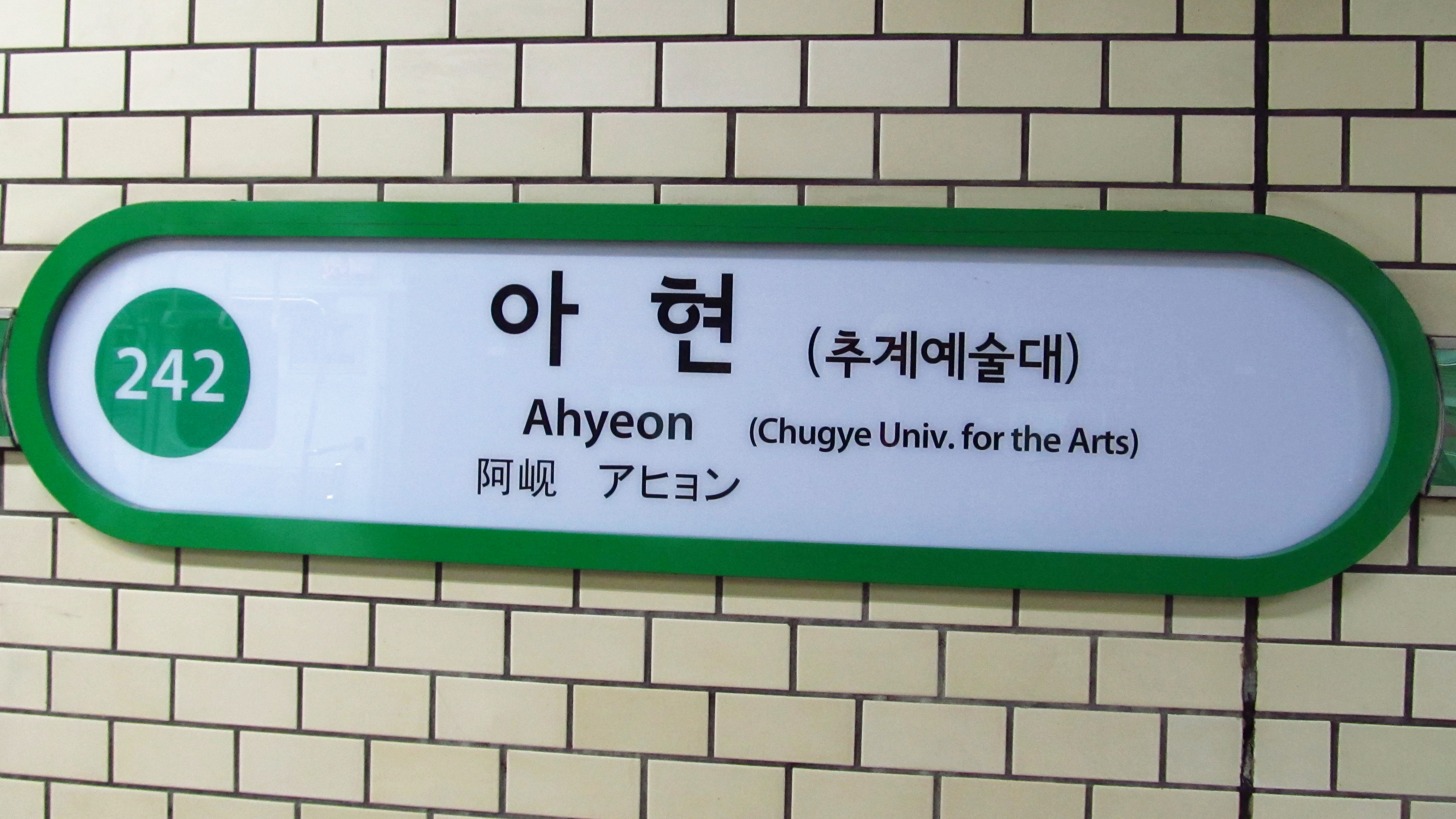 A sign of Ahyeon Station on Seoul Subway Line 2